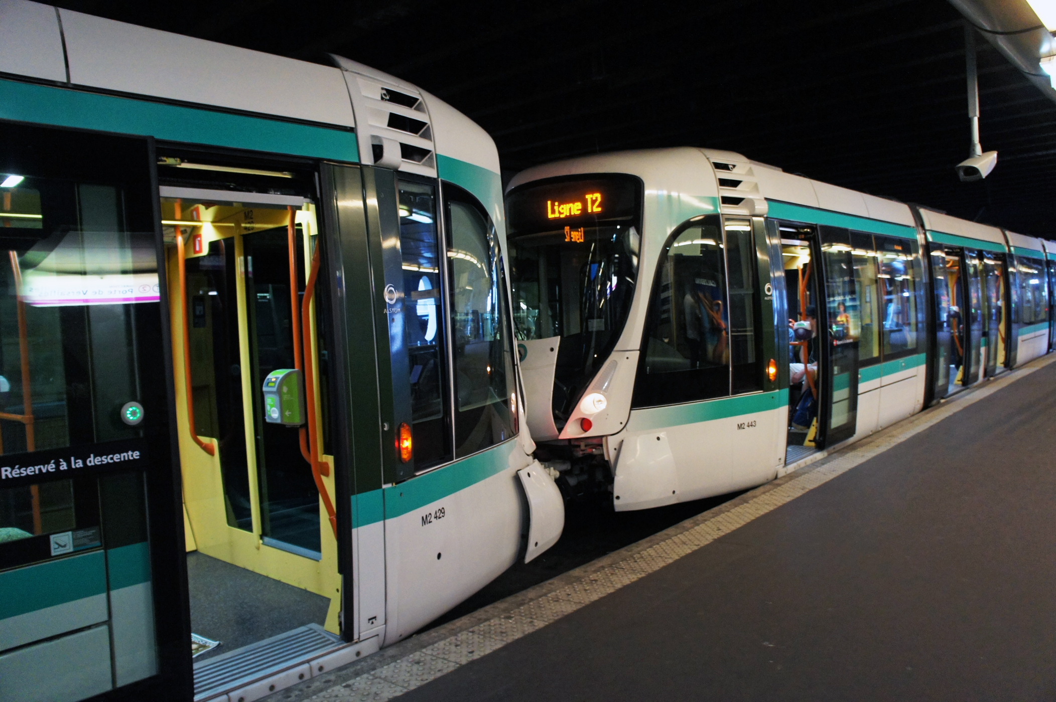 Paris (Île-de-France) tramway Line 2 at La Défense station